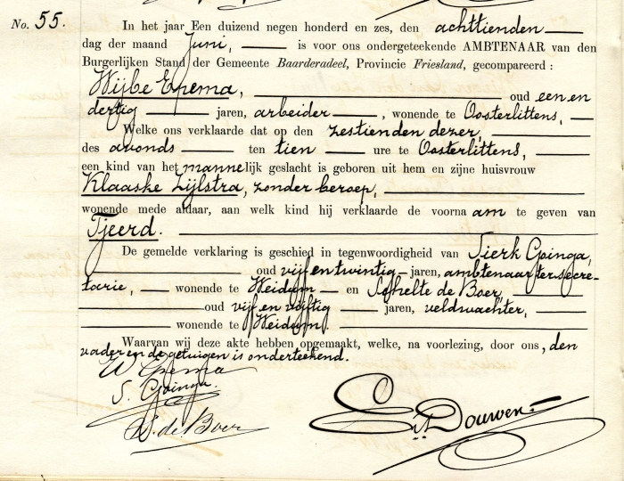 Geboorteakte Tjeerd Epema 18-06-1906